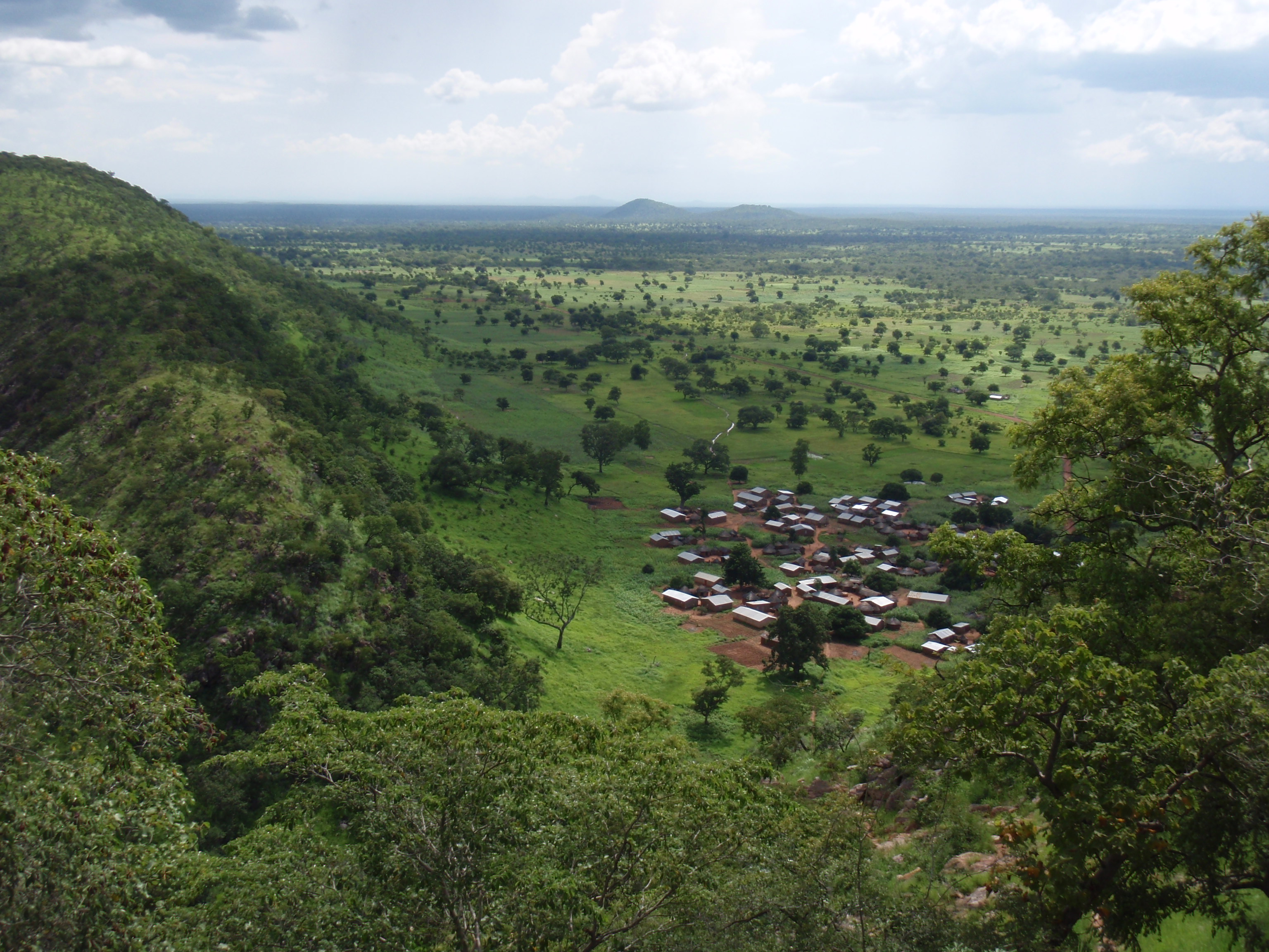 Atakora mountains, North Benin, close to Batia, Pendjari Nationalpark